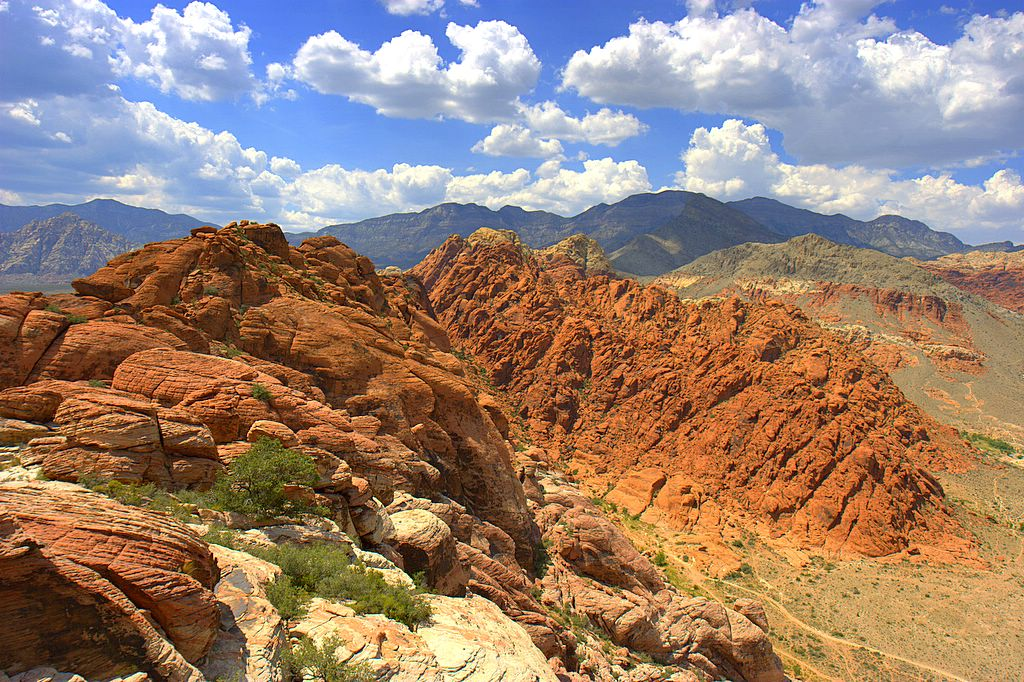 These clouds are cumulus mediocris clouds above Calico Basin in Red Rock National Conservation Area near Las Vegas Nevada